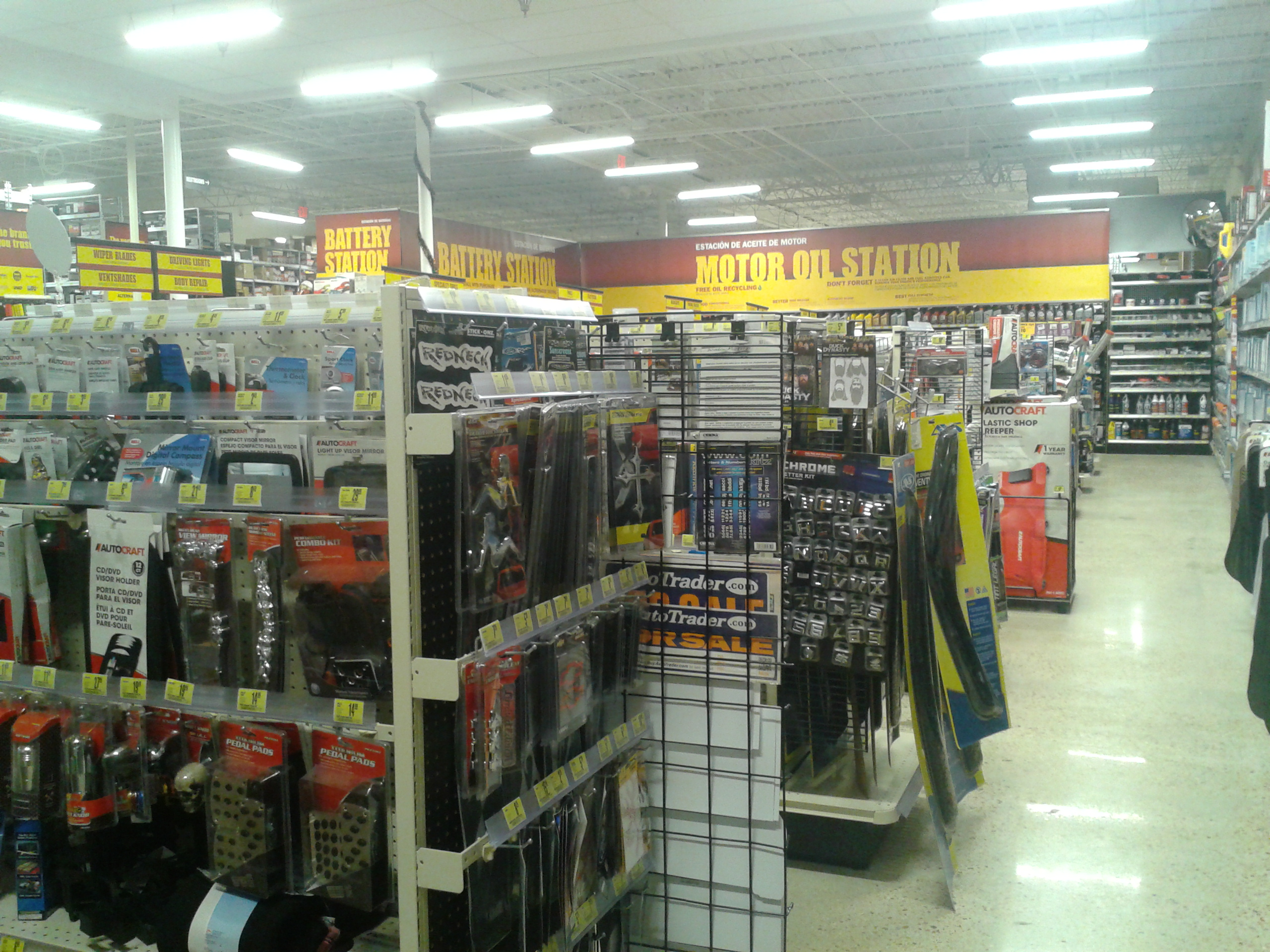 Interior of an Advance Auto Parts store in Fairfax County